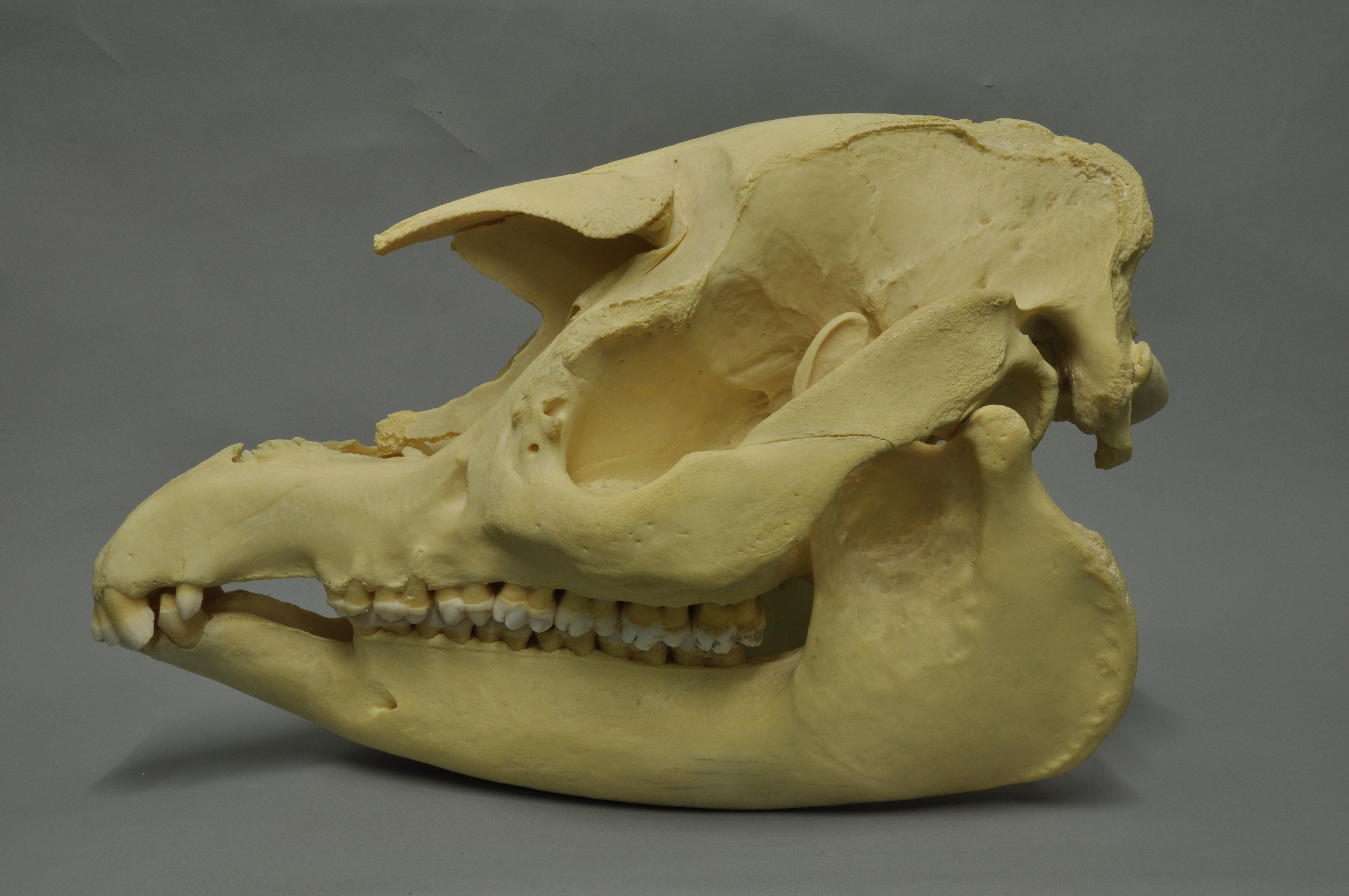 Malayan tapirTapirus indicus , skull, Coll. Museum Wiesbaden